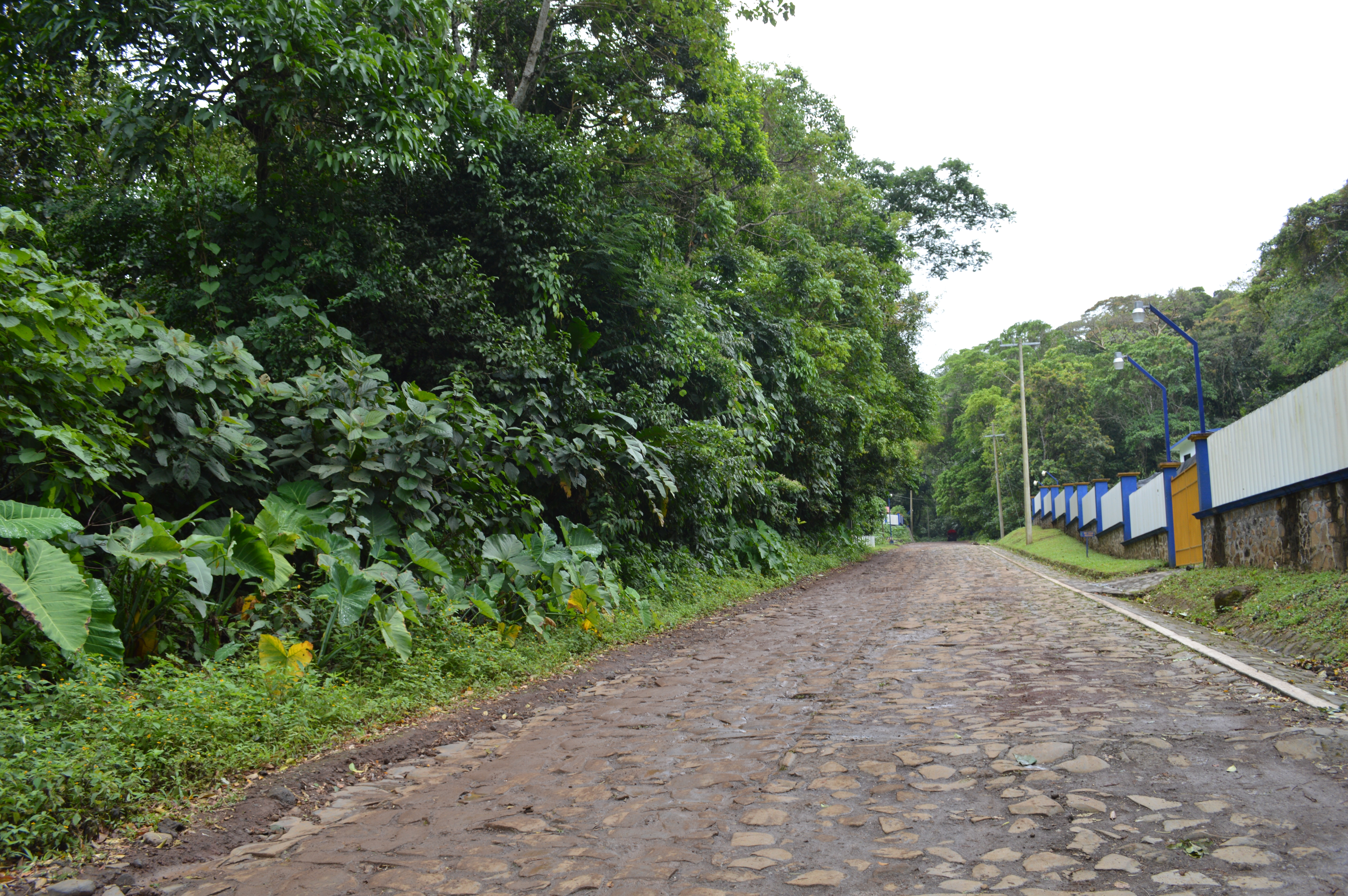 Road through the Los Tuxtlas Tropial Biology Station of UNAM in San Andres Tuxtla, Veracruz